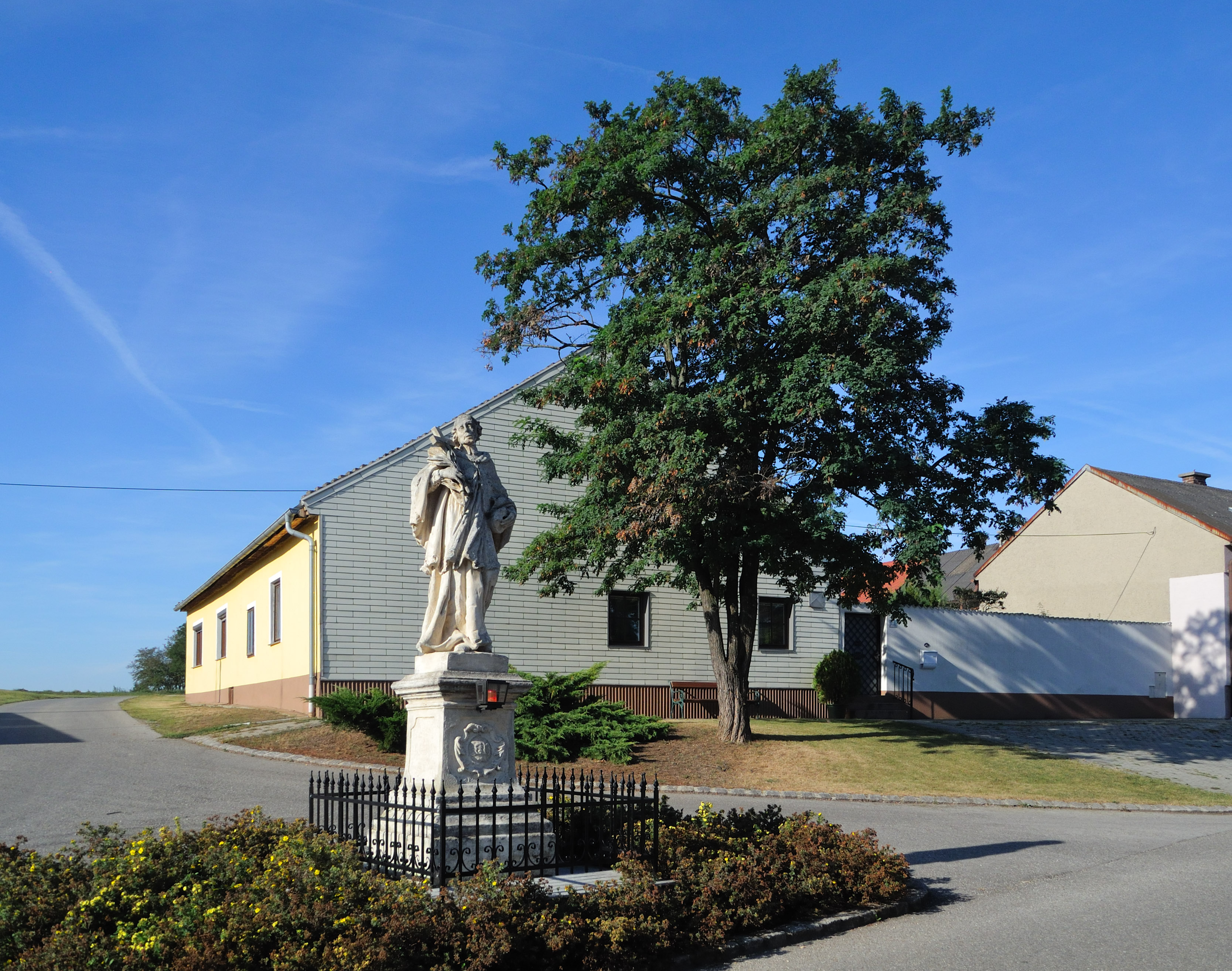 Saint John of Nepomuk statue in Neudorf bei Parndorf, Burgenland, Austria